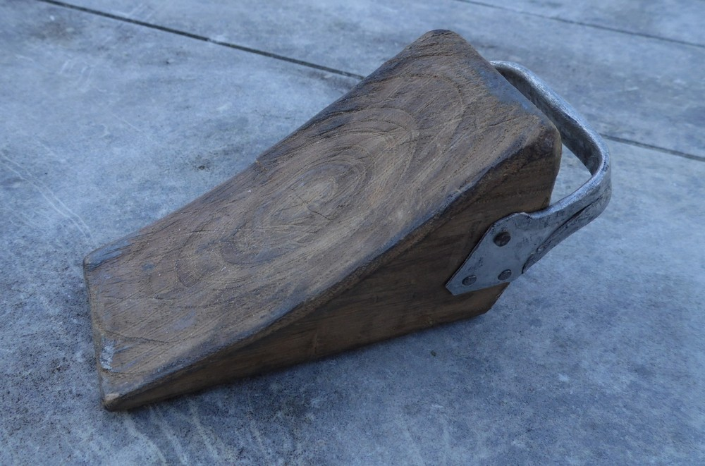 A shim spacer for cars, artisanal handicraft (1961)